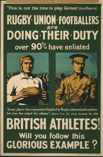 World War I recruitment poster, using rugby union players as an example